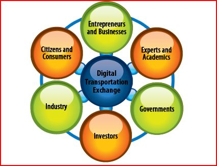 Graphic on DOT Digital Transportation Exchange by Chief Information Officer, Nitin Pradhan.